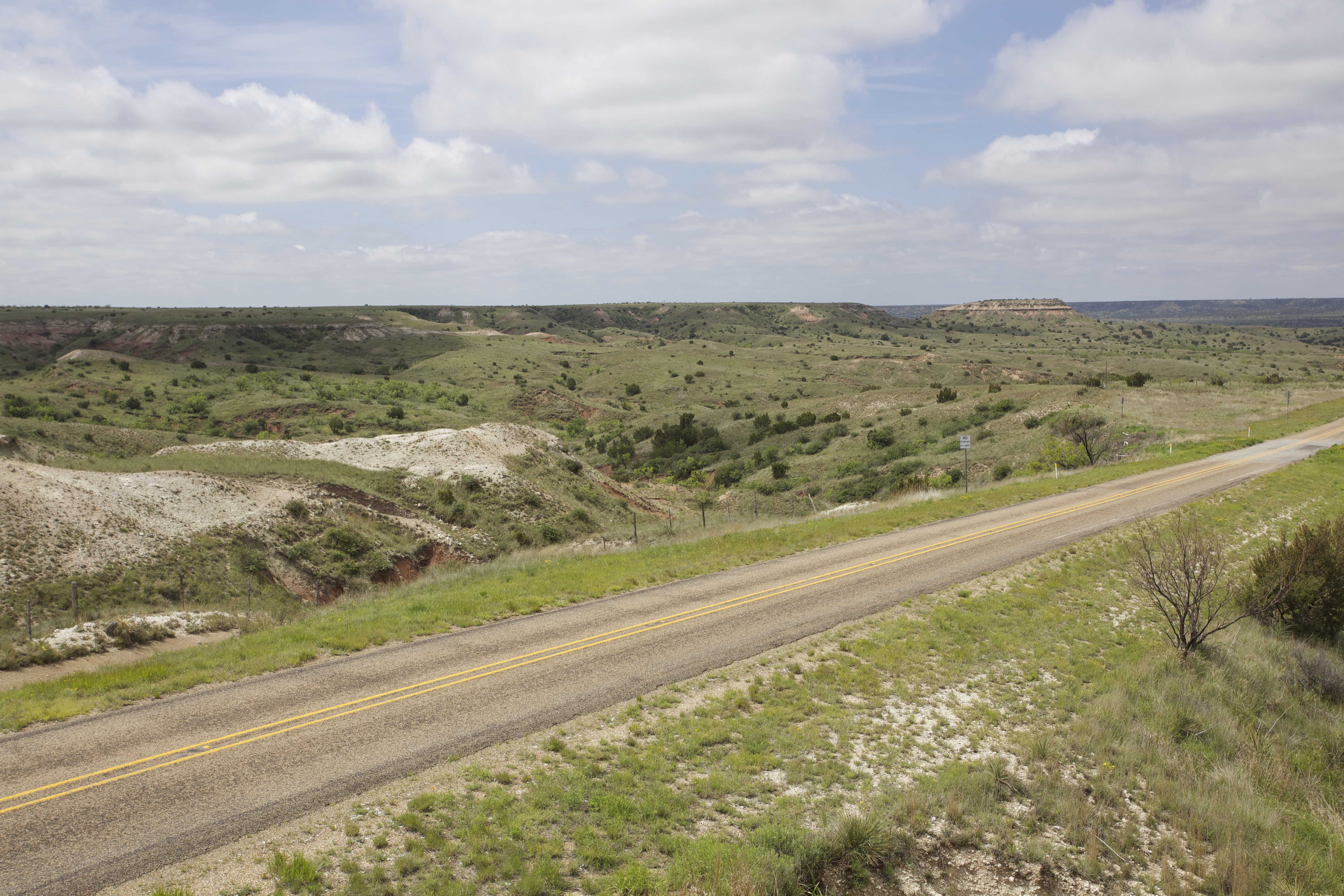 Farm to Market Road 2591 passing through Blanco Canyon, Crosby County, Texas.